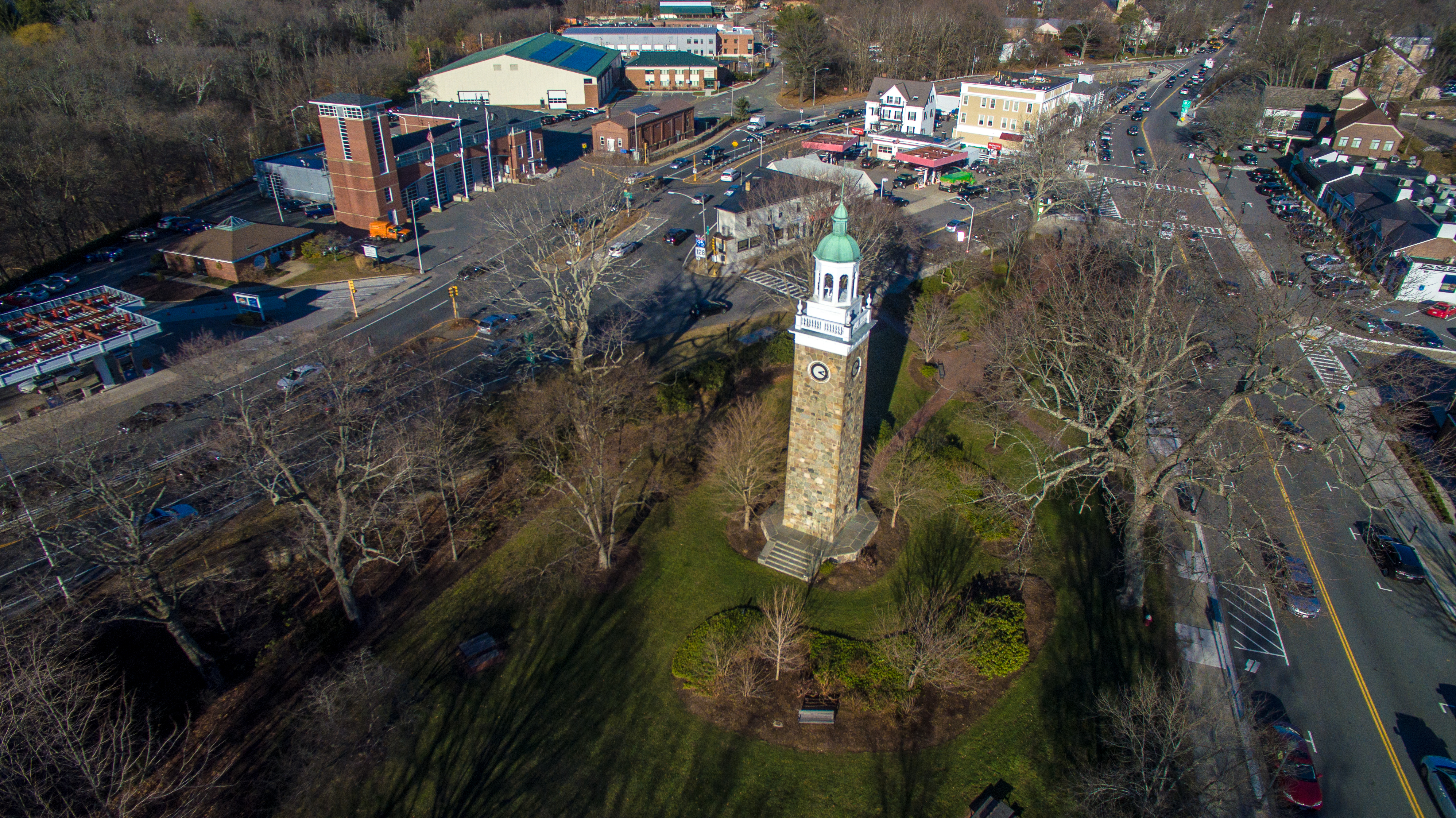 Aerial view of the clock tower and park in Wellesley, MA